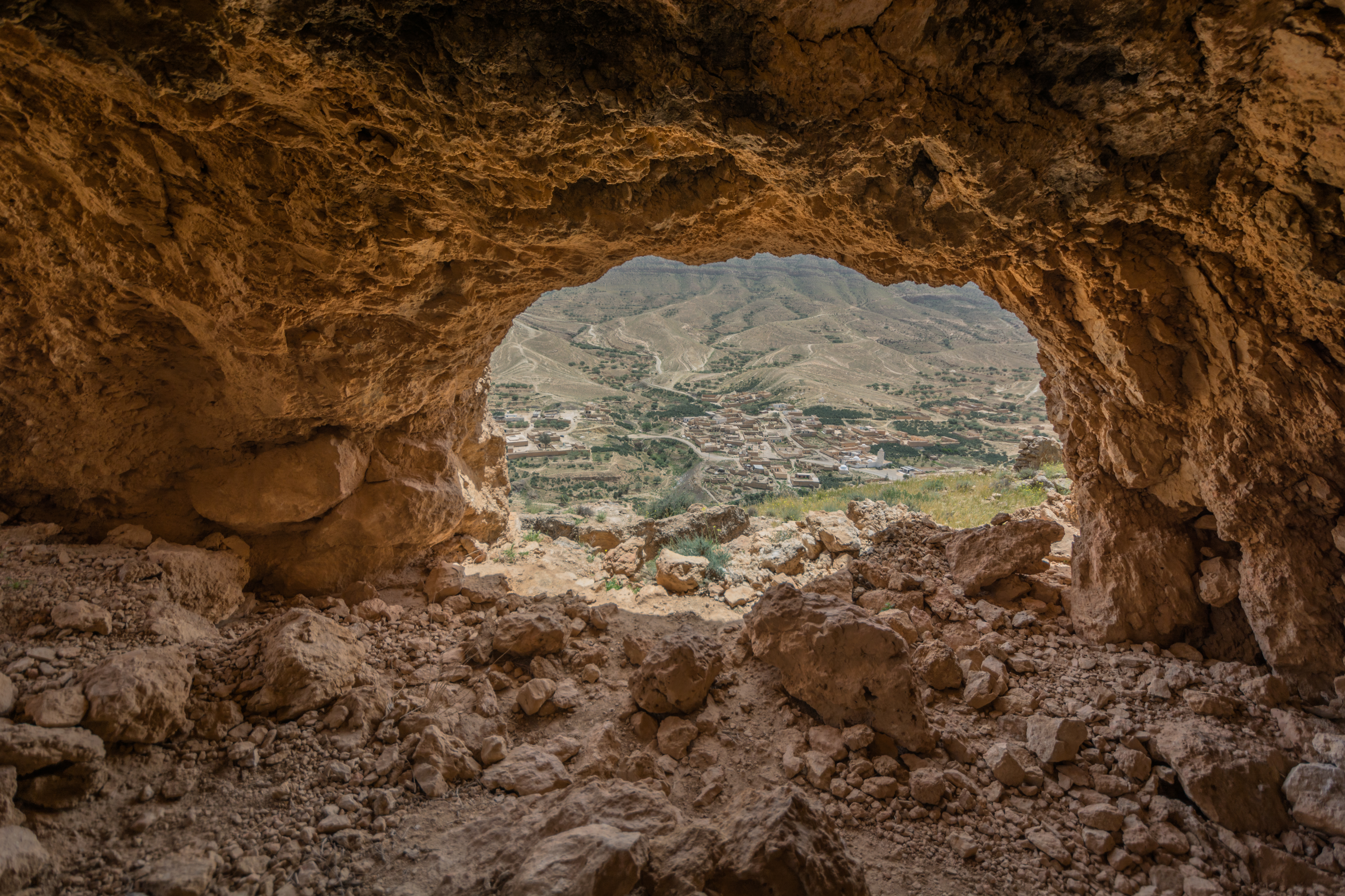 View of the berber village of Snad which lies at the bottom and inside the mountain Orbata in Gafsa, Tunisia